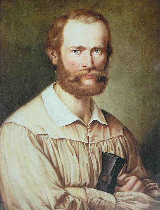 Portrait of Ernst von Bandel (c.1843)